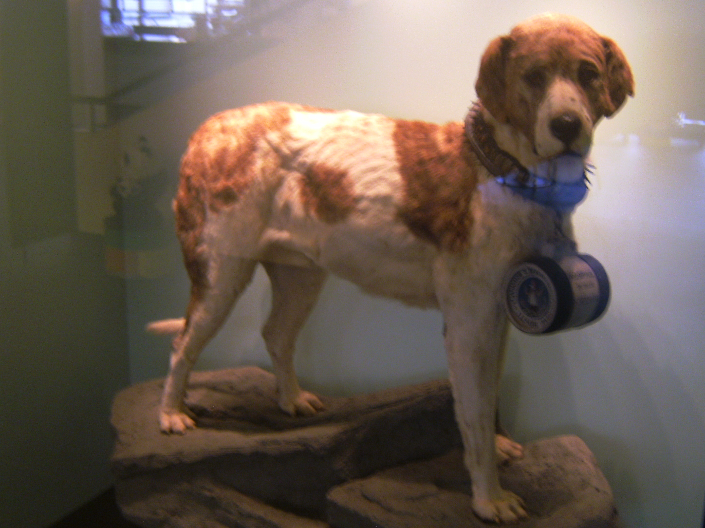 Stuffed body of Barry, famous rescue dog